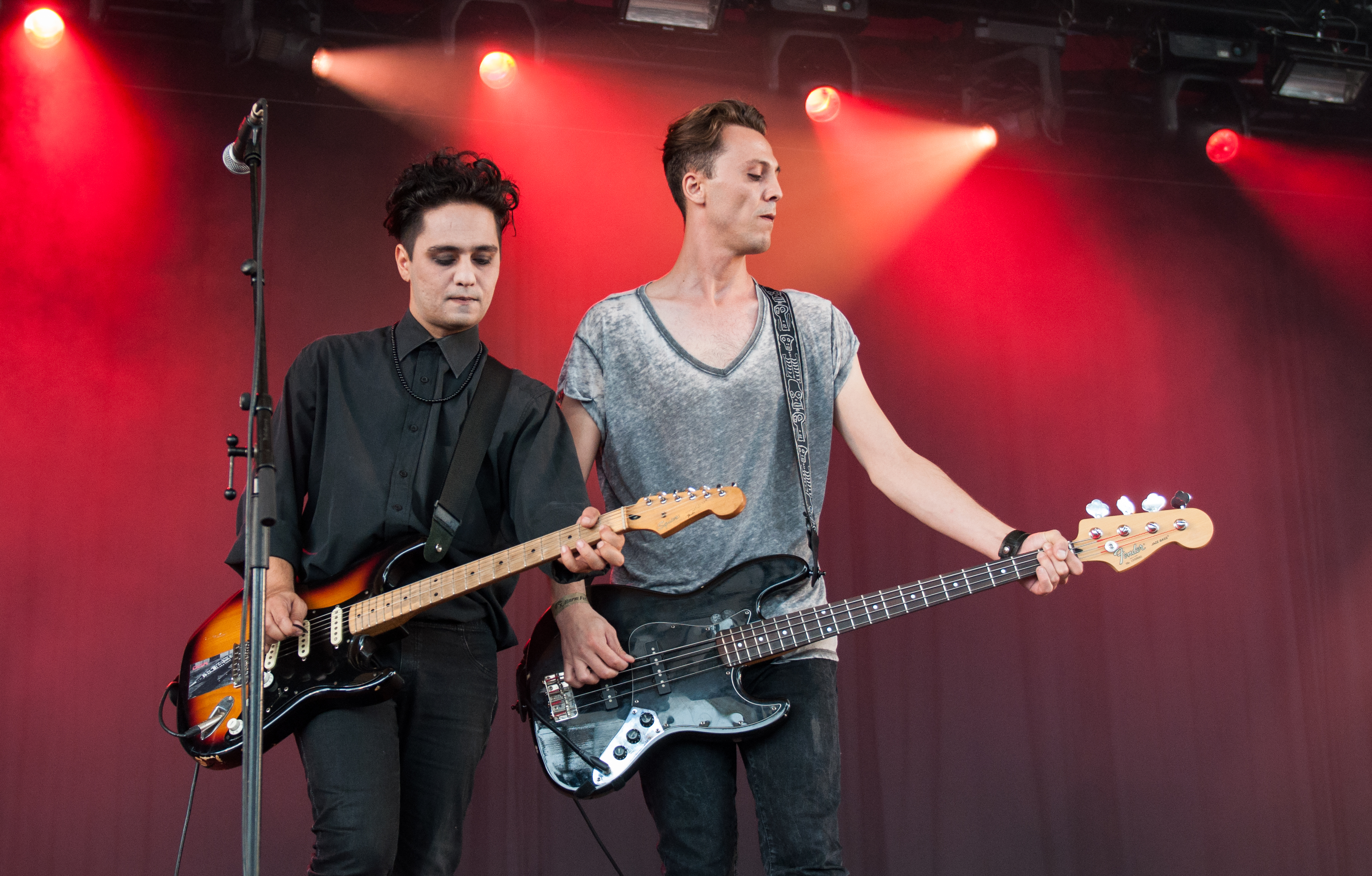 She Past Away at Amphi Festival 2014, Cologne